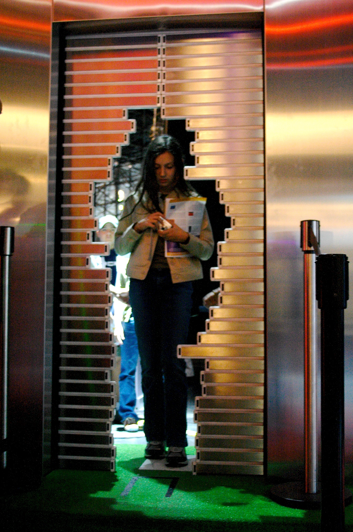 E-Taf Automatic Door